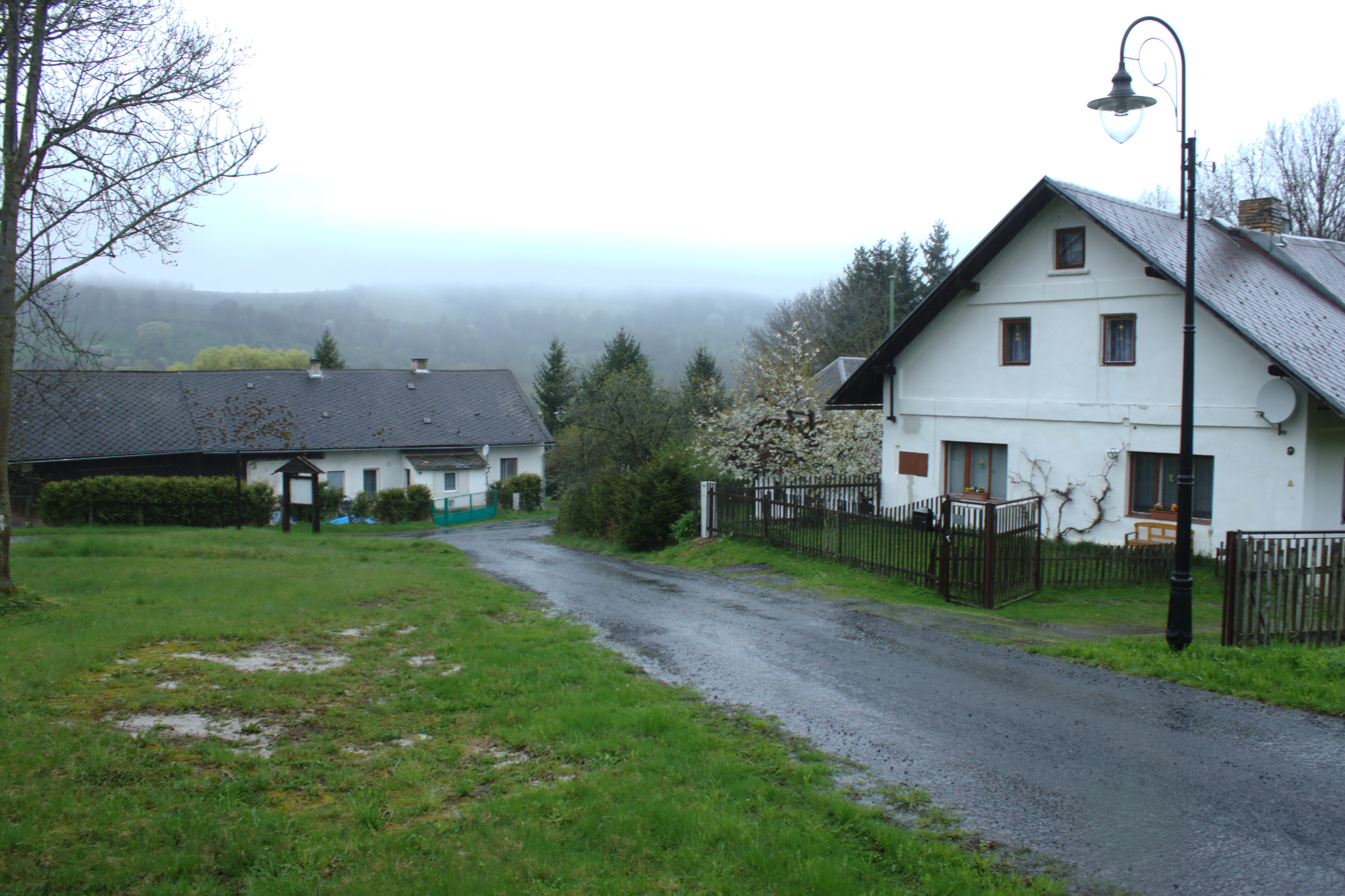 A common in the village of Divišovice, Plzeň Region, CZ